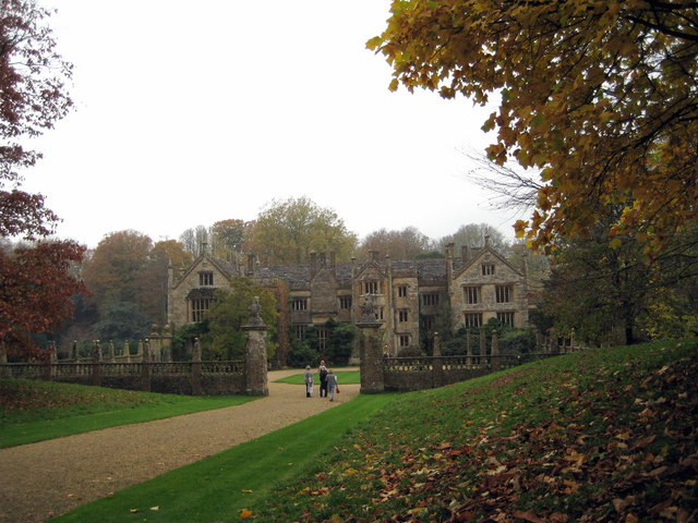 Parnham House. Parnham was built circa 1400 and since then much restoration has taken place right up into the 20th Century. Stephen de Parnham was the first recorded owner and then the Strode and Oglander families lived there. Please see 1173557. More recently in the 1920's the house became a country club and an army hospital during WWII. In 1976 John Makepeace the well-known cabinet maker and craftsman established his school there. It is now in private ownership.